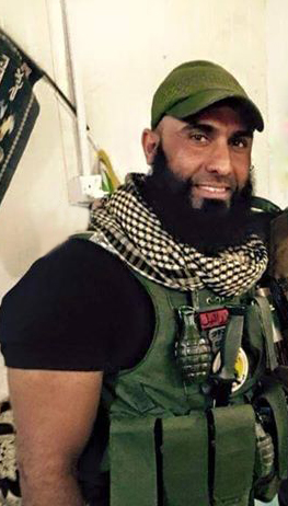 Abu Azrael is a commander of the Kata'ib al-Imam Ali, an Iraqi Shi'a militia group of the Popular Popular Mobilization Forces that is fighting ISIL/ISIS (Islamic State of Iraq and the Levant) in Iraq